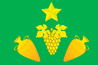 Flag of Keslerovskoe rural settlement, Krasnodar Territory, Russia